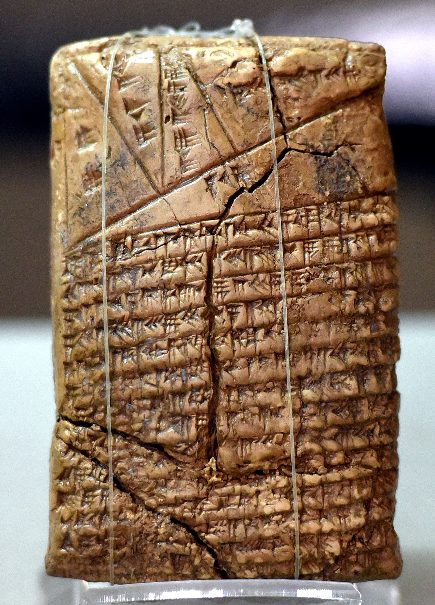 Clay tablet, mathematical, geometric-algebraic theory (of right-angled triangles), similar to the Euclidean geometry. From Tell Harmal (ancient Shaduppum), Iraq. Old Babylonian period, 2003-1595 BCE. On display at the Iraq Museum in Baghdad, Iraq.